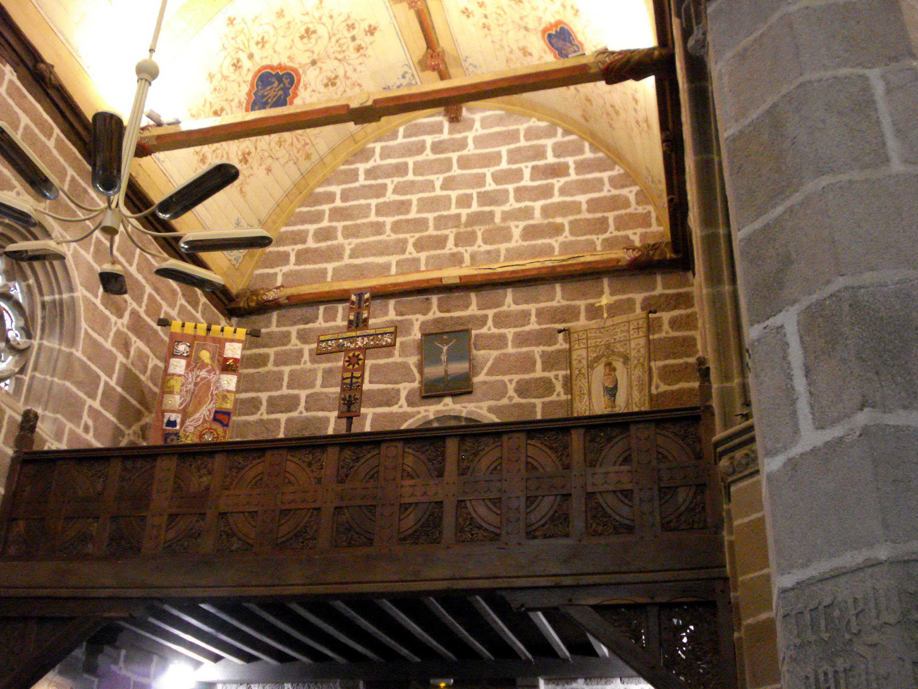 The restored roof and the decorated tribune with the two banners of Notre-Dame de la Clarté.